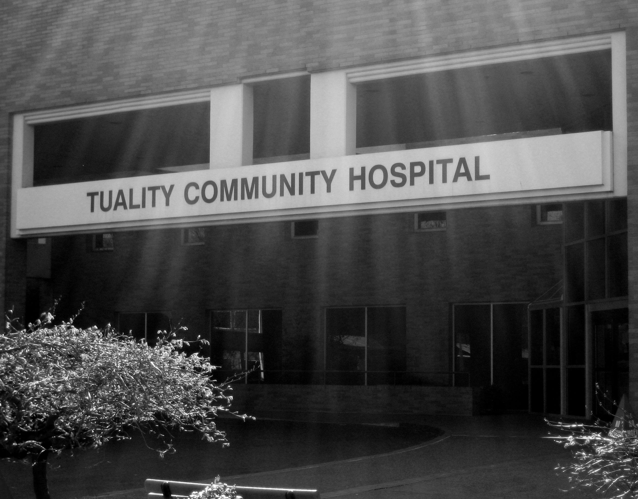 Tuality Community Hospital entrance in Hillsboro.